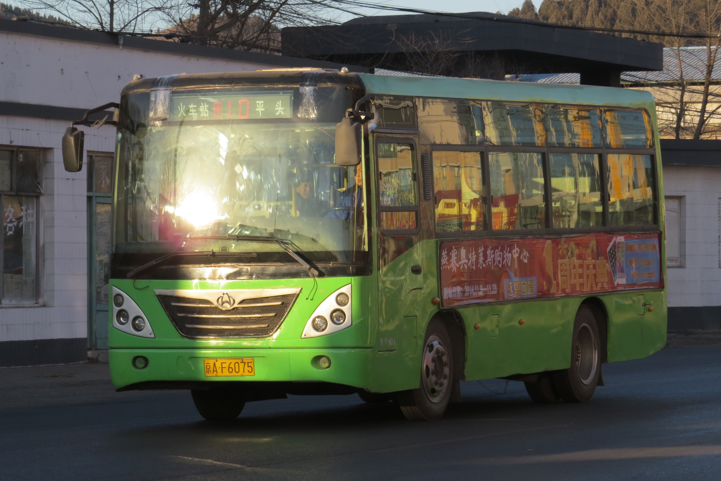 No fleet number...just a Chang'an midibus.